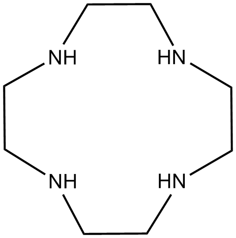 Structure of a cyclen, drawn with ChemDraw